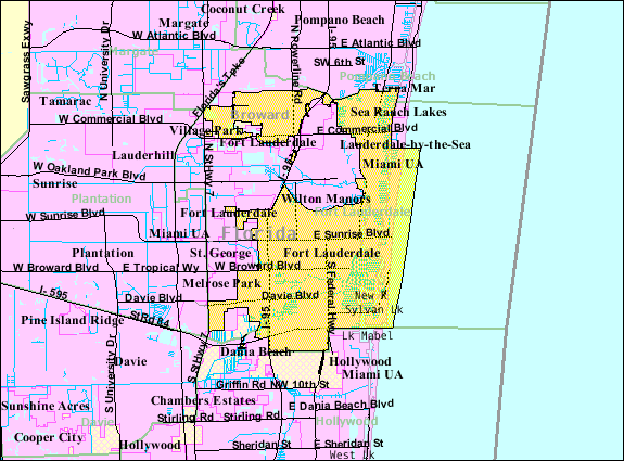 Fort Lauderdale, Florida